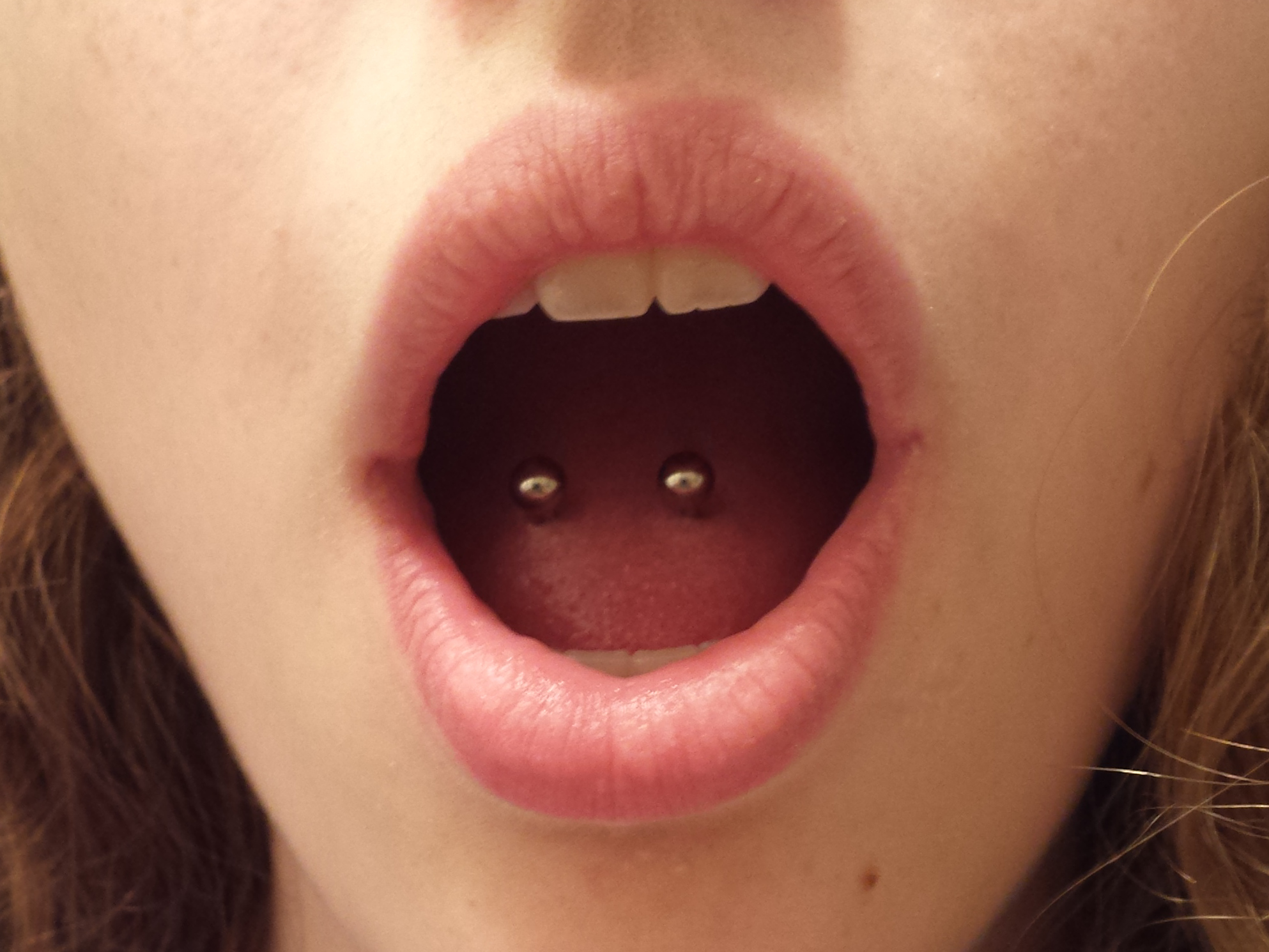 Cropped version of File:Venom piercings.jpg